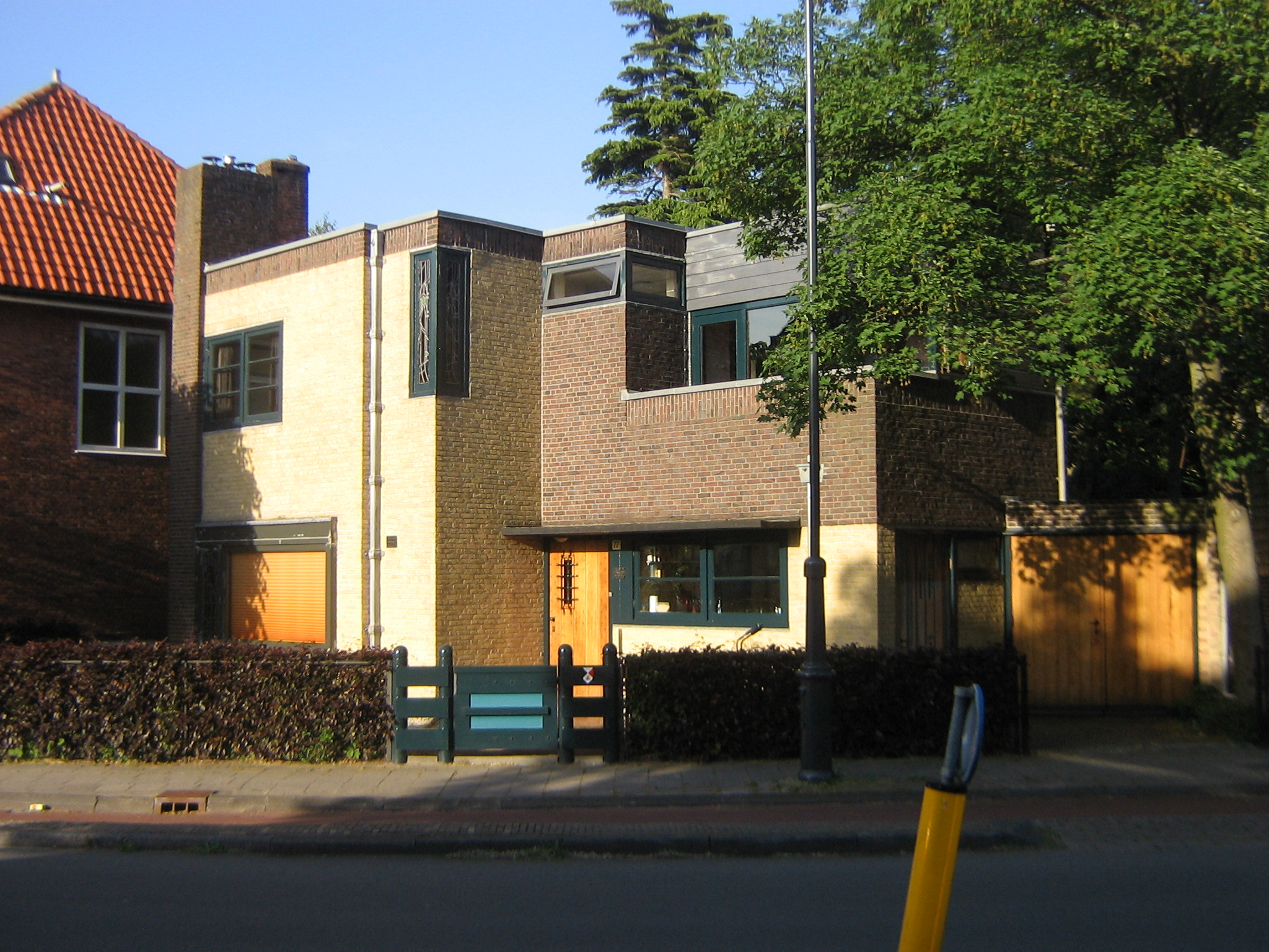 Van_Loghem_Van_Eedenstraat_Haarlem